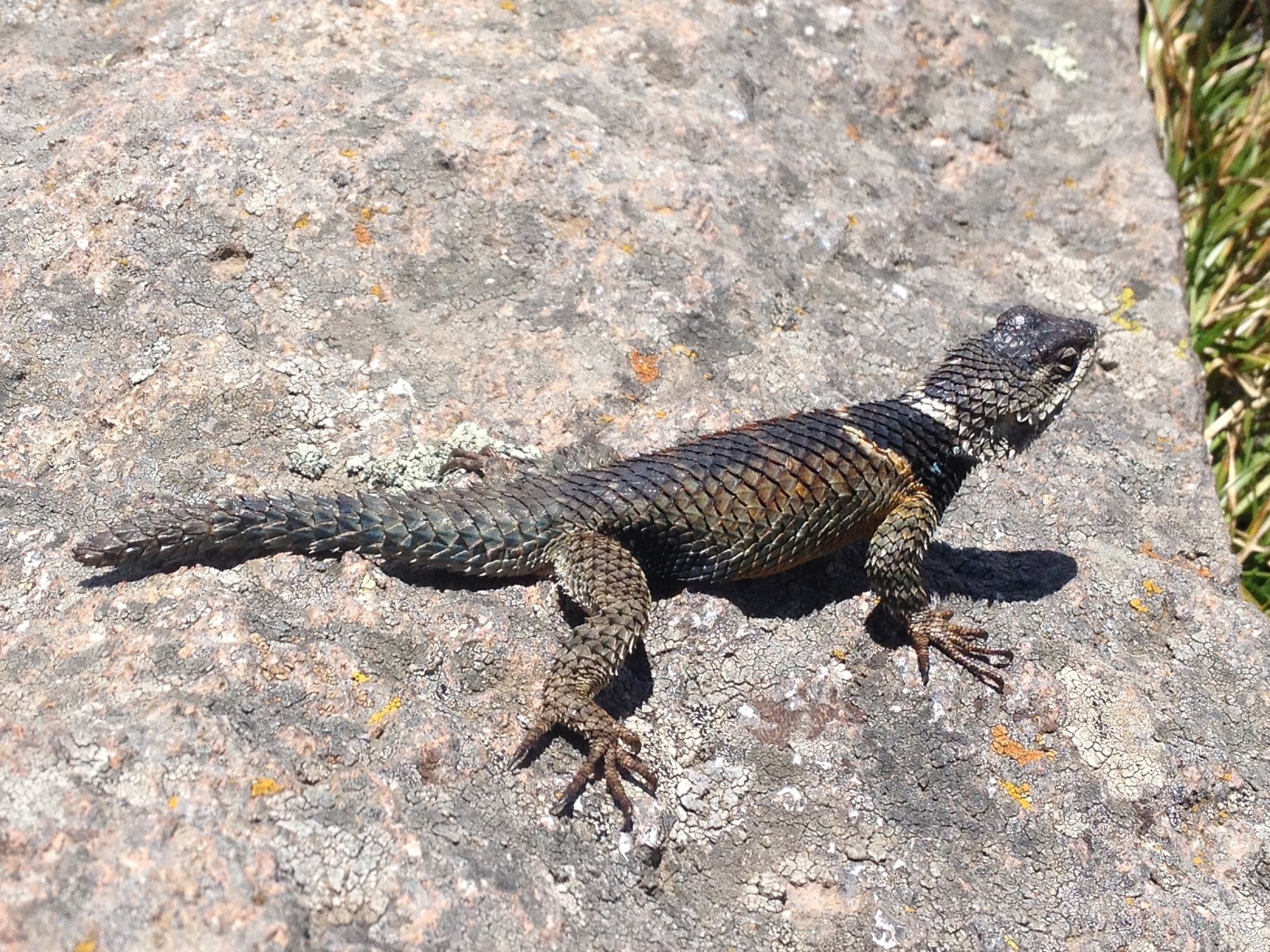 Sceloporus mucronatus is a spiny lizard from the Mexican highlands.